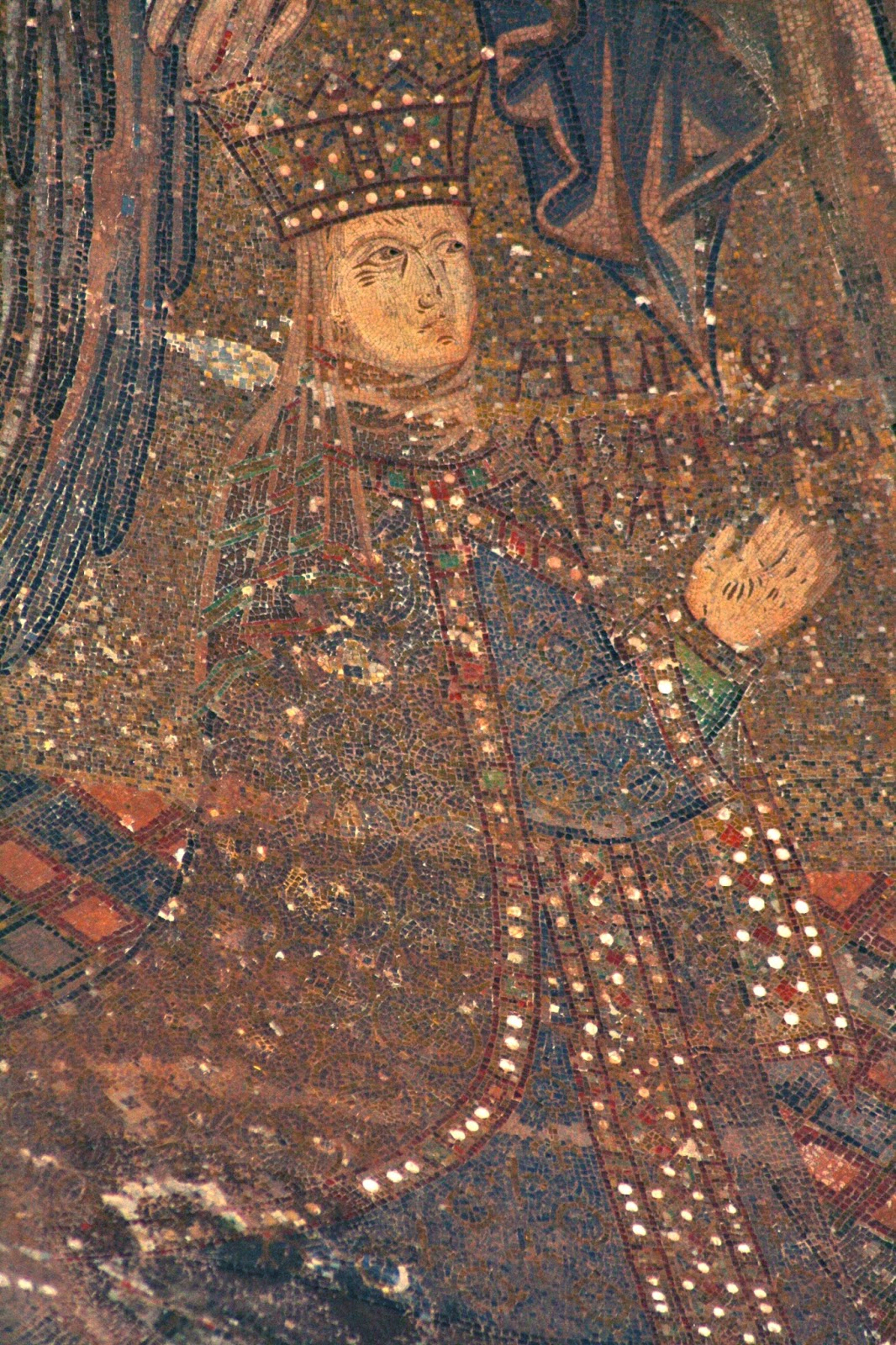 Eleanor of Naples, Queen of Sicily